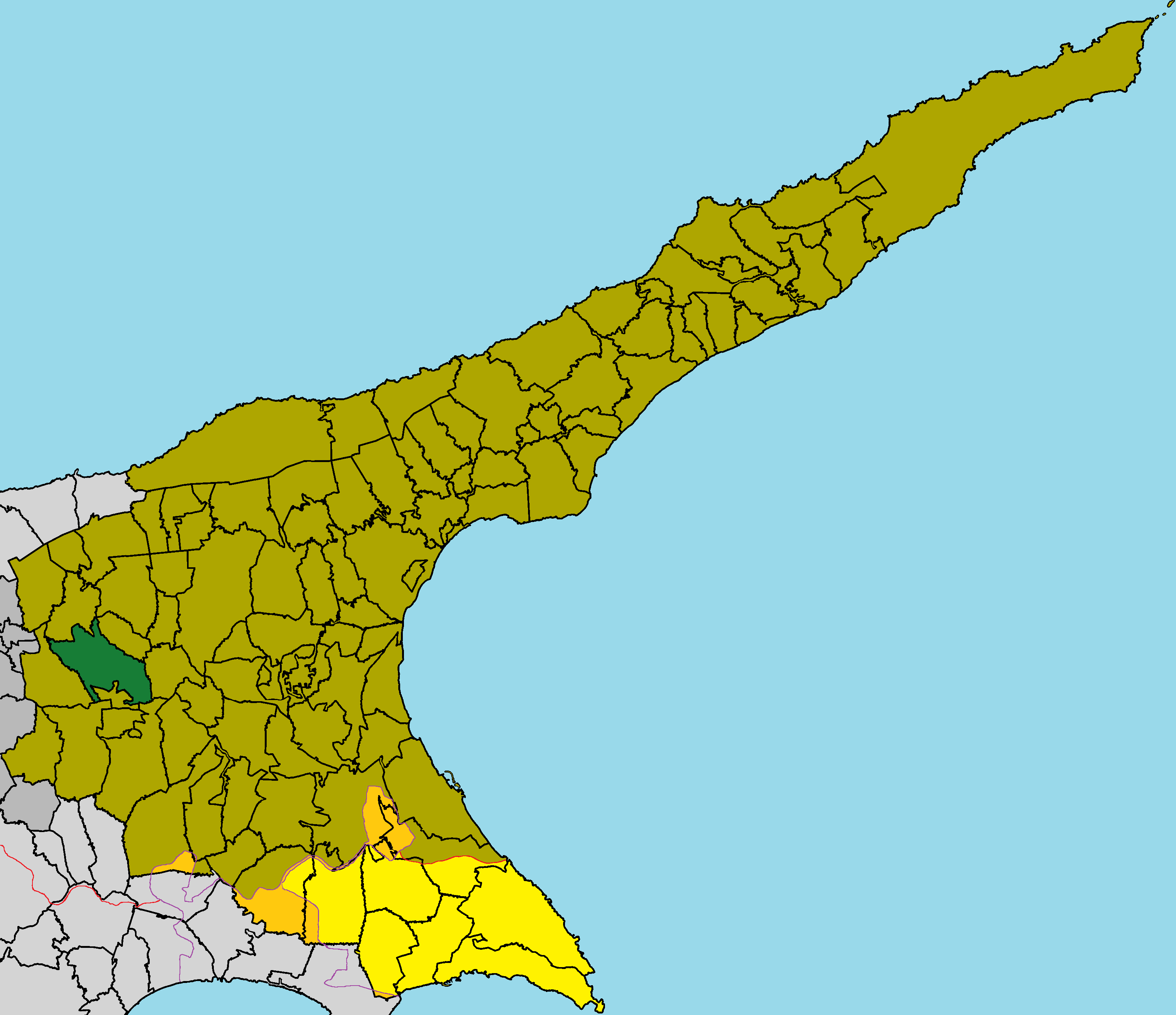 Marathovounos in Famagusta District (de jure).